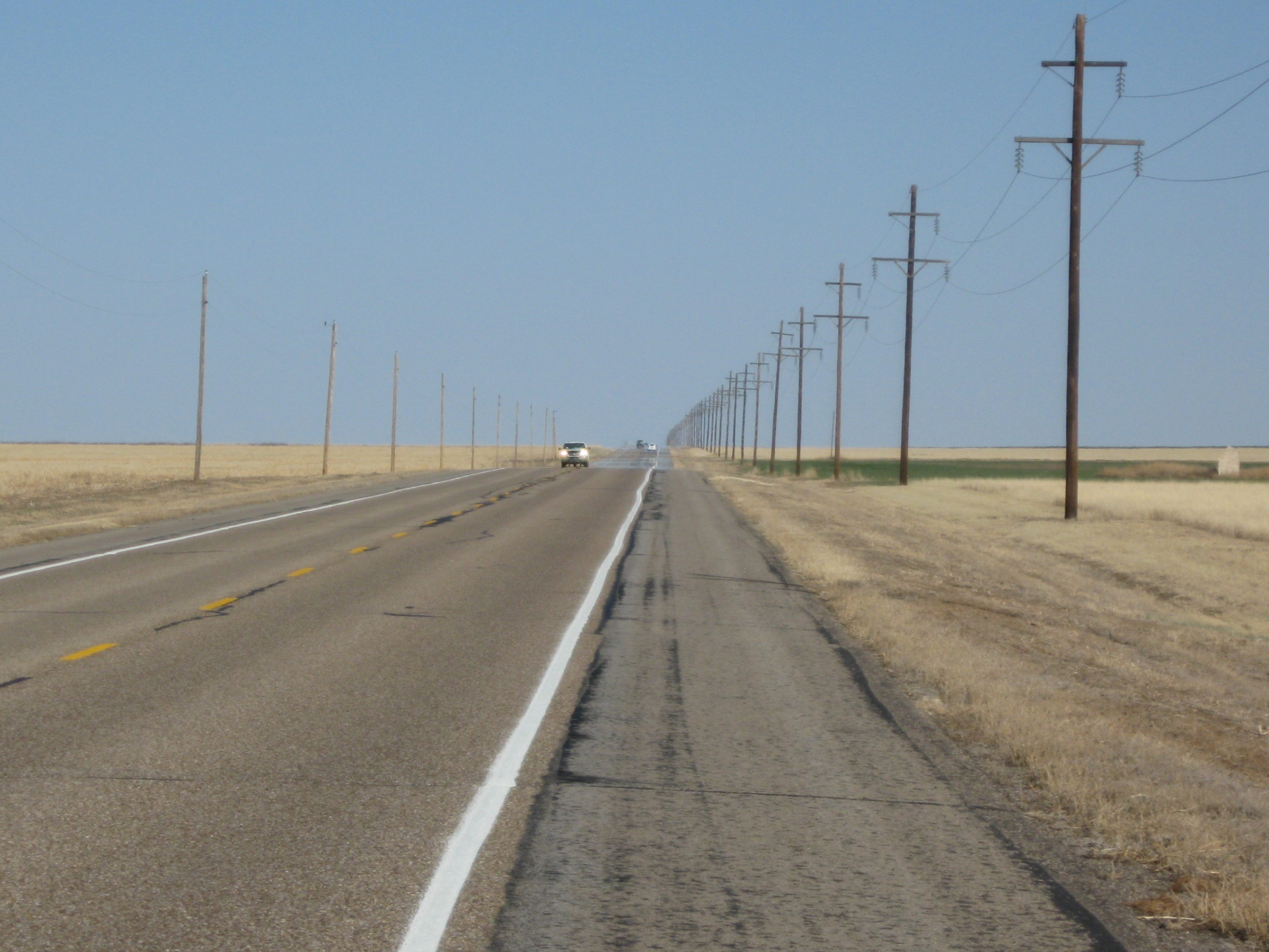 Highway 412 between Boise City and Guymon, Oklahoma. Facing east in late afternoon.